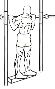 an exercise of dard